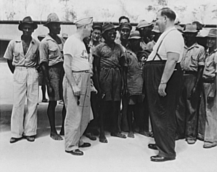 Stan Laurel and Oliver Hardy 1943, touring Caribbean bases with the first United Service Organization (USO) Flying Showboat.Original caption:" Laurel and Hardy were in the first United Service Organization (USO) "Flying Showboat" to tour Caribbean bases."